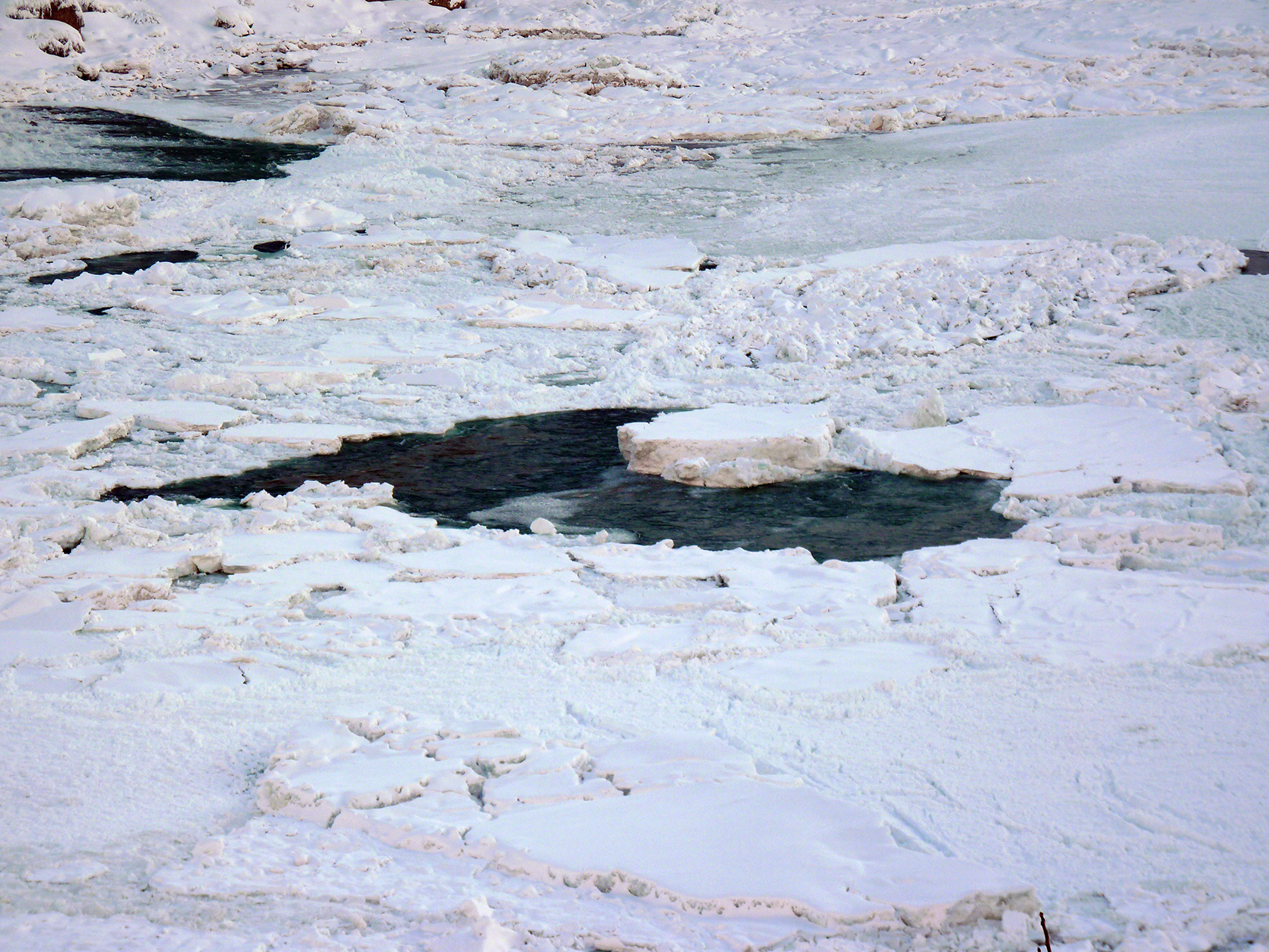 Unfrozen portion of the river - Niagara Falls, February 2011